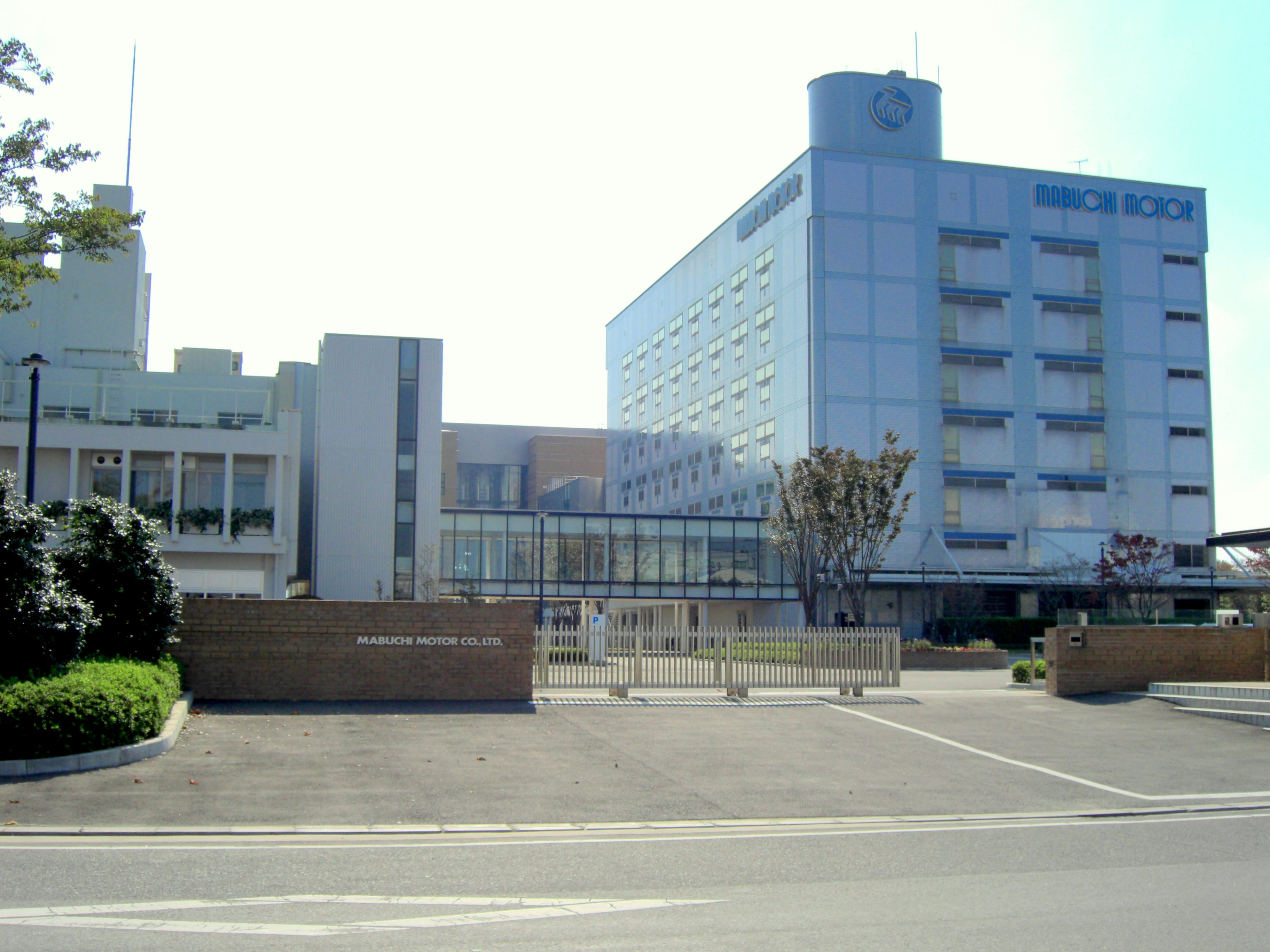 Mabuchi Motor head office in Matsudo, Chiba Prefecture, Japan